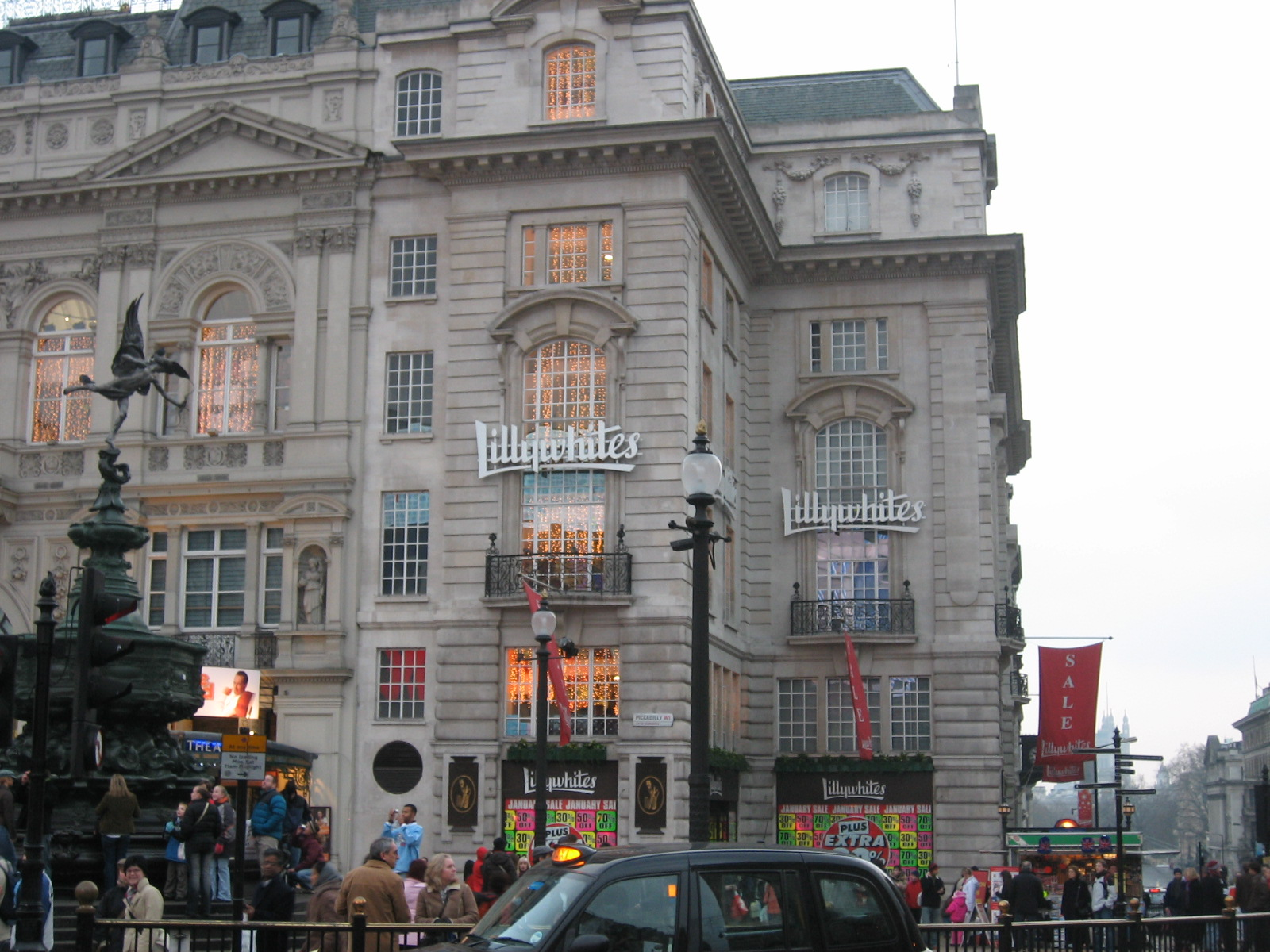 Lillywhites department store in London, England